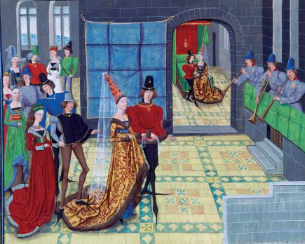 While musicians playa chivaree outside their bedroom, the newly married noble couple sits on a bed surmounted by an oval conception-time mirror. Renaud de Montauban.